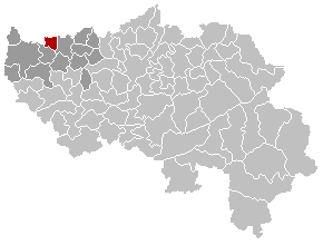 Map, municipality belgium Berloz